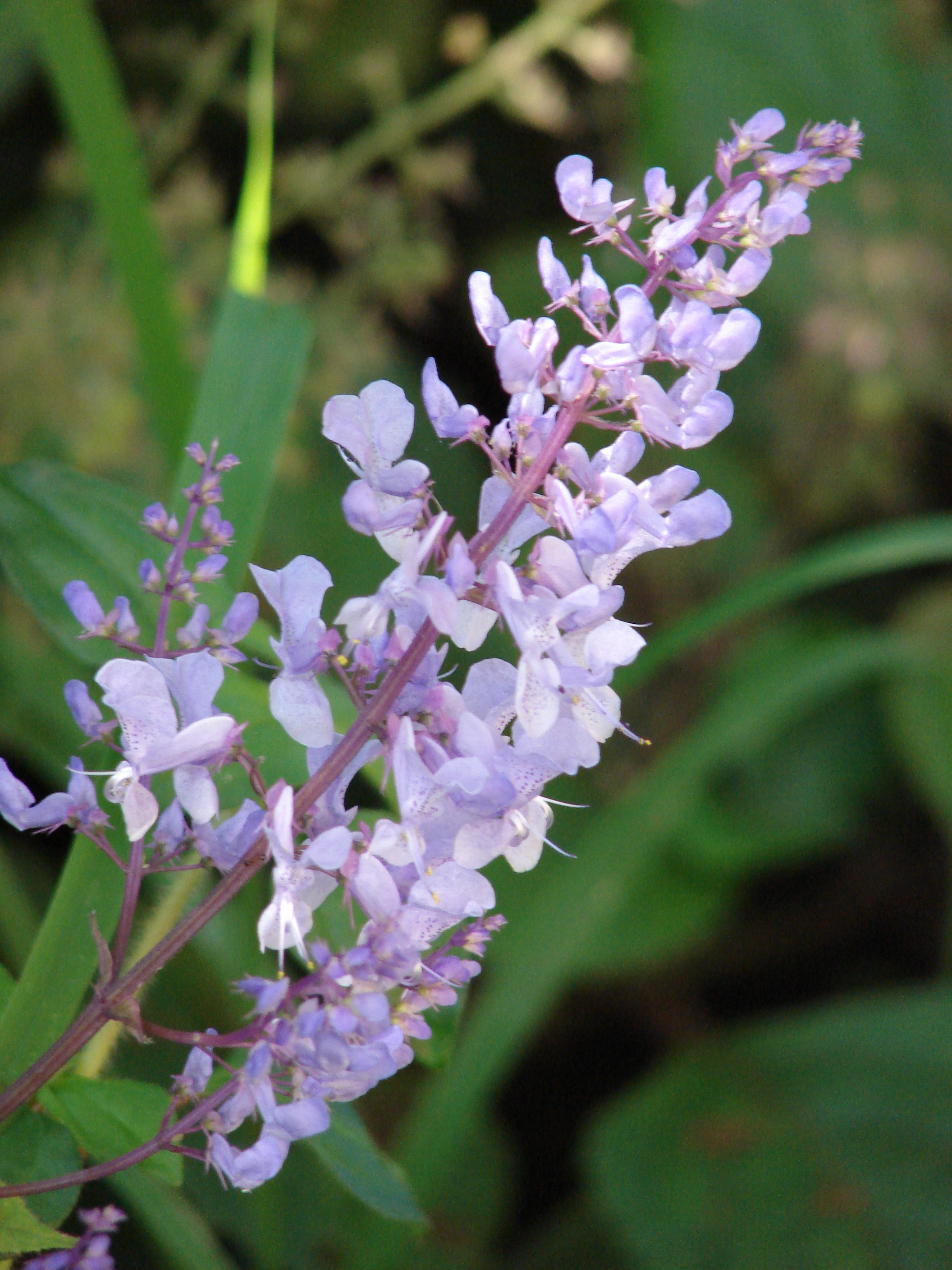 Plectranthus fruticosus (flowers). Location: Maui, Enchanting Floral Gardens of Kula